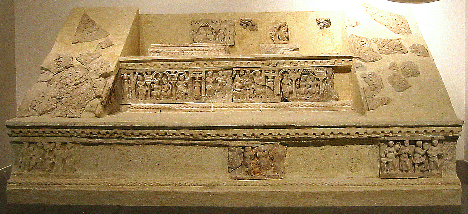 Base of Stupa C1 at Hadda. Musee Guimet. Personnal photograph 2006.